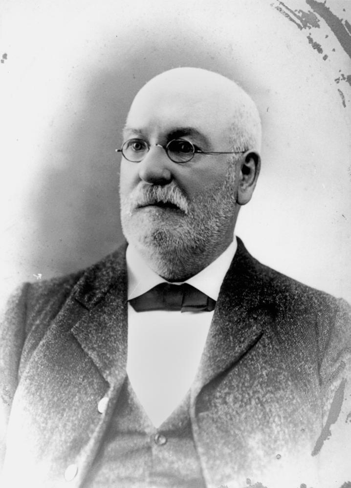 John McLeish who was Mayor of Toowoomba in 1881. John McLeish was elected the 12th Mayor of Toowoomba in 1881. John McLeish owned and operated a grocery business in Toowoomba during the latter half of the 19th century. He was a council alderman in 1879 and 1881.